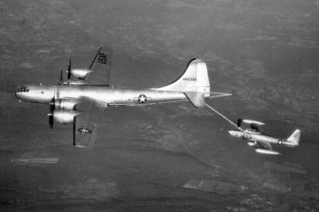 U.S. Air Force Boeing YKB-29J Superfortress 44-86398 links up with a Republic F-84E Thunderjet of the 116th Fighter-Bomber Wing over Korea in 1952. The 116th FBW was made up only of Air National Guard units, the 158th Fighter-Bomber Squadron, Georgia ANG, 159th FBS, Florida ANG, and 196th FBS, California ANG.